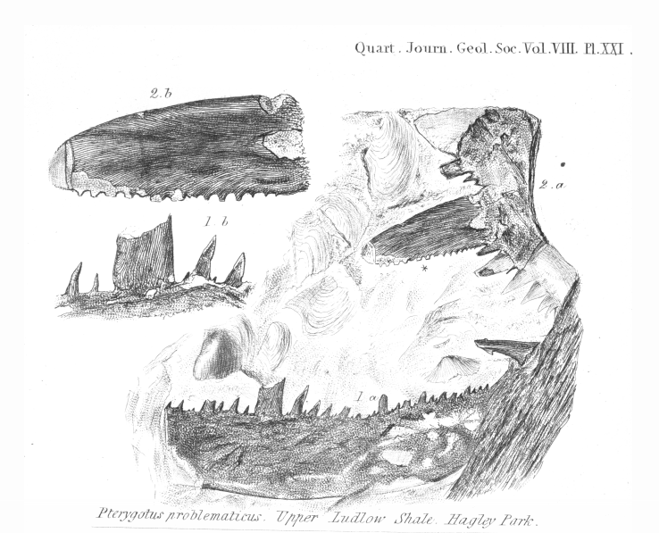 Fossils of Pterygotus problematicus published by John William Salter in 1852. Fig. 1 a. Part of the claw of Pterygotus problematicus, Agass., from the Upper Ludlow Rock of Hagley Park, Herefordshire:— this is probably the fixed finger, and shows the striated spines of unequal size. Fig. 1 b. Some of the spines, magnified. Fig. 2 a. From the same slab:— a portion probably of the spinous edge of the abdomen, with one of the lateral appendages (*) attached. Fig. 2 b. The appendage, fig. 2a*, magnified, to show the radiating striae and lateral teeth. This large spine or appendage may possibly be a terminal joint of one of the feet, pressed against the fragment, fig. 2 a, but not articulated with it.